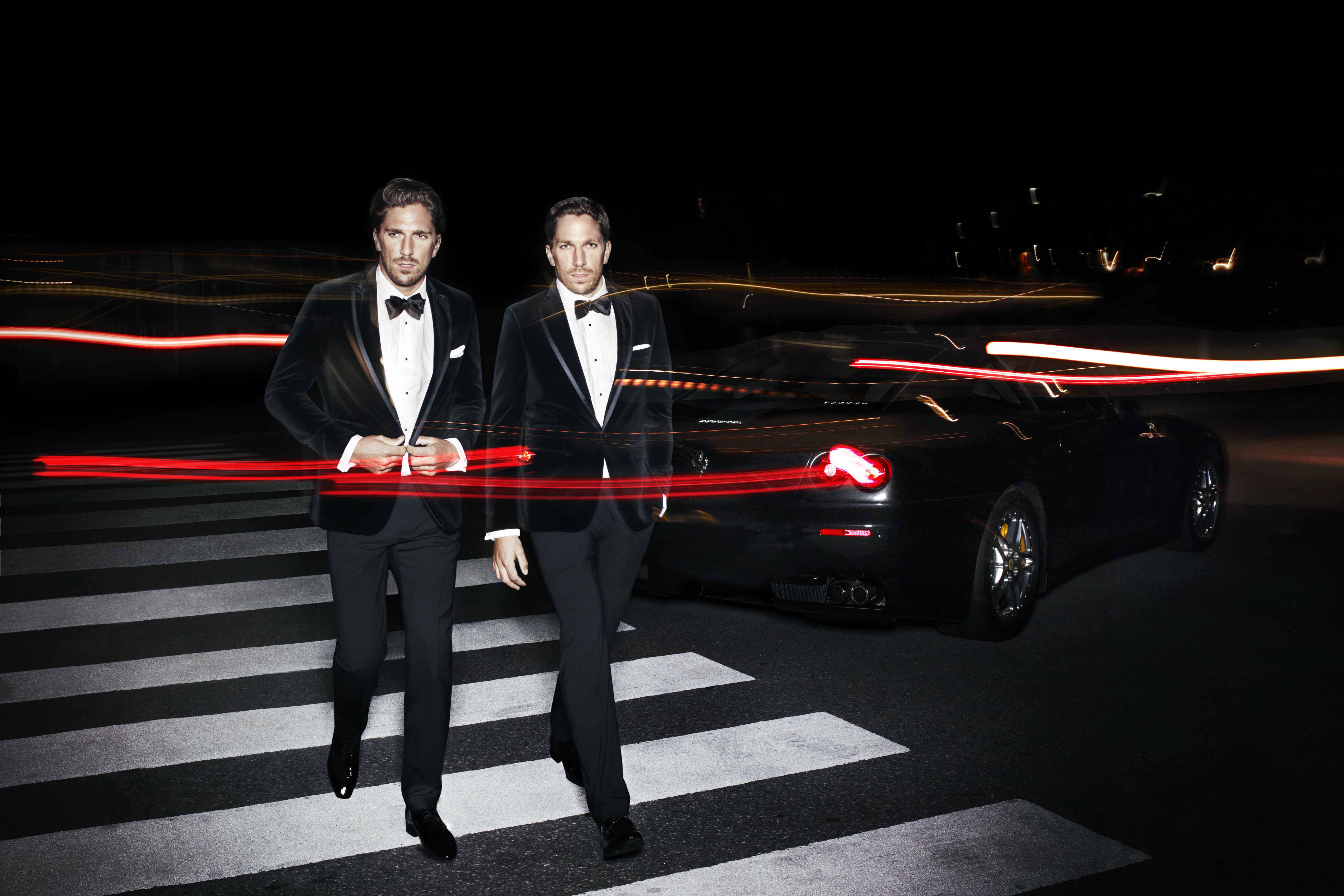 Swedish ice hockey twins Henrik (left) and Joel Lundqvist in an ad campaign for clothing retailer Brothers.